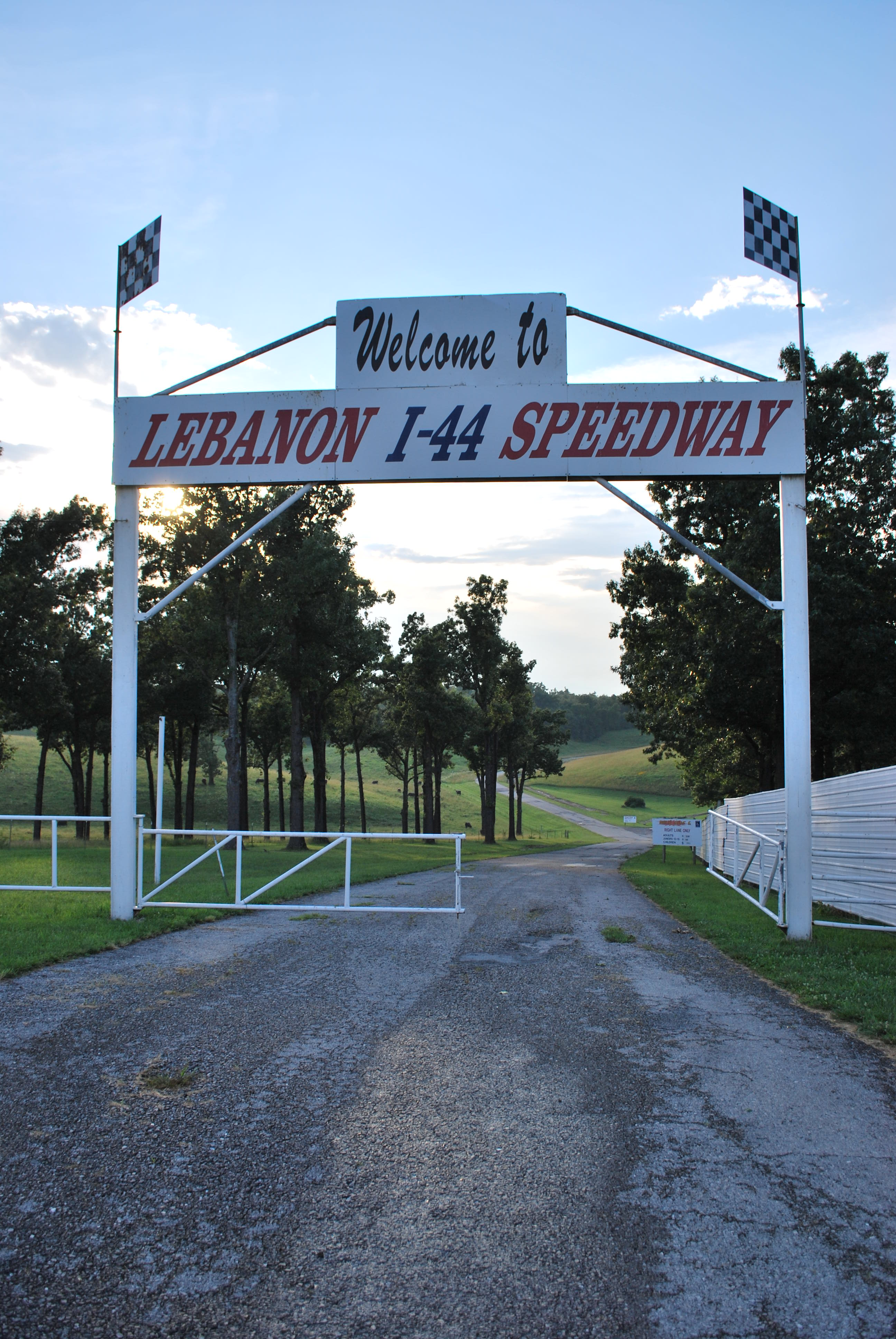 The entrance arch for Lebanon I44 Speedway